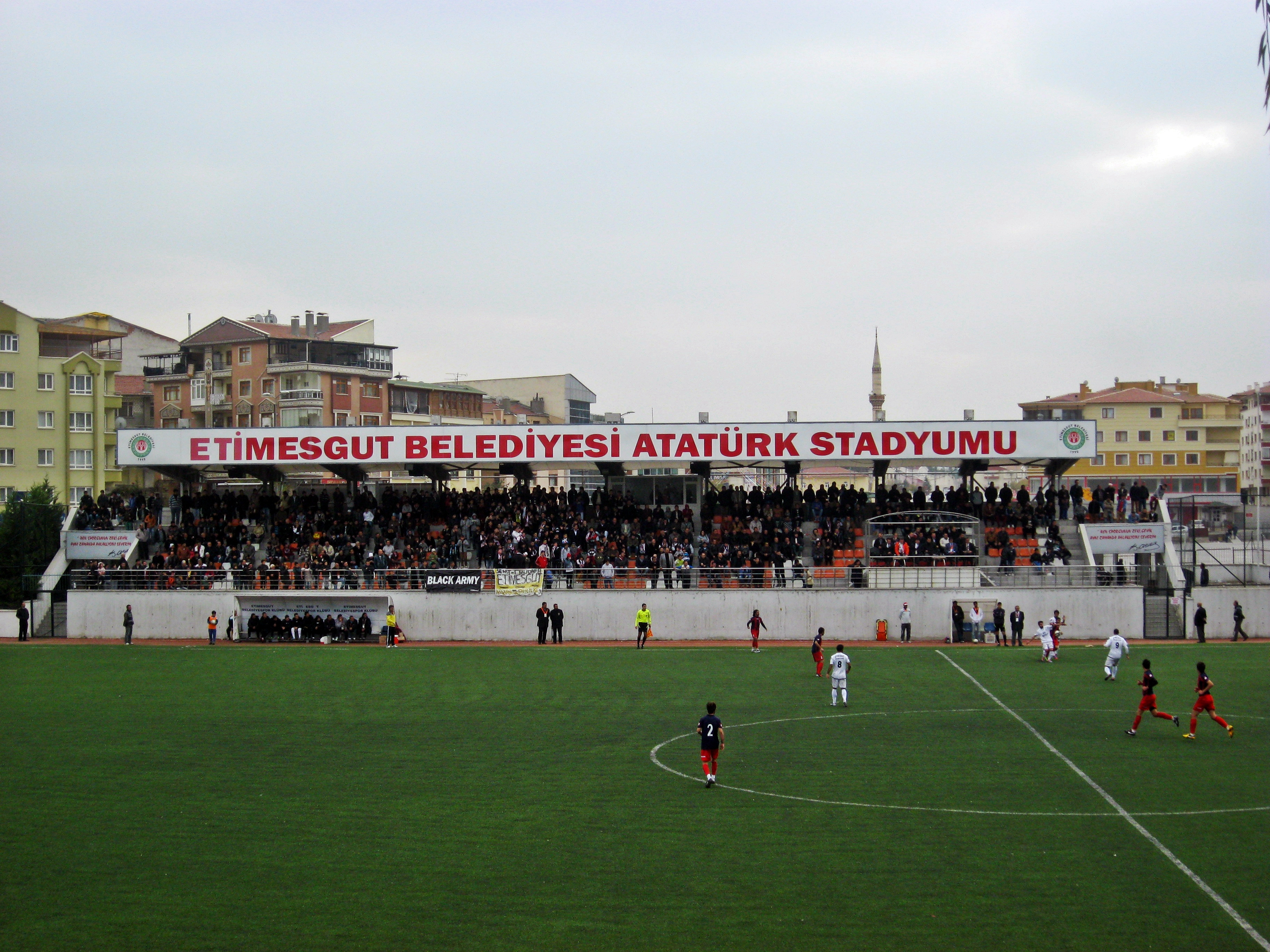 Etimesgut Atatürk Stadium